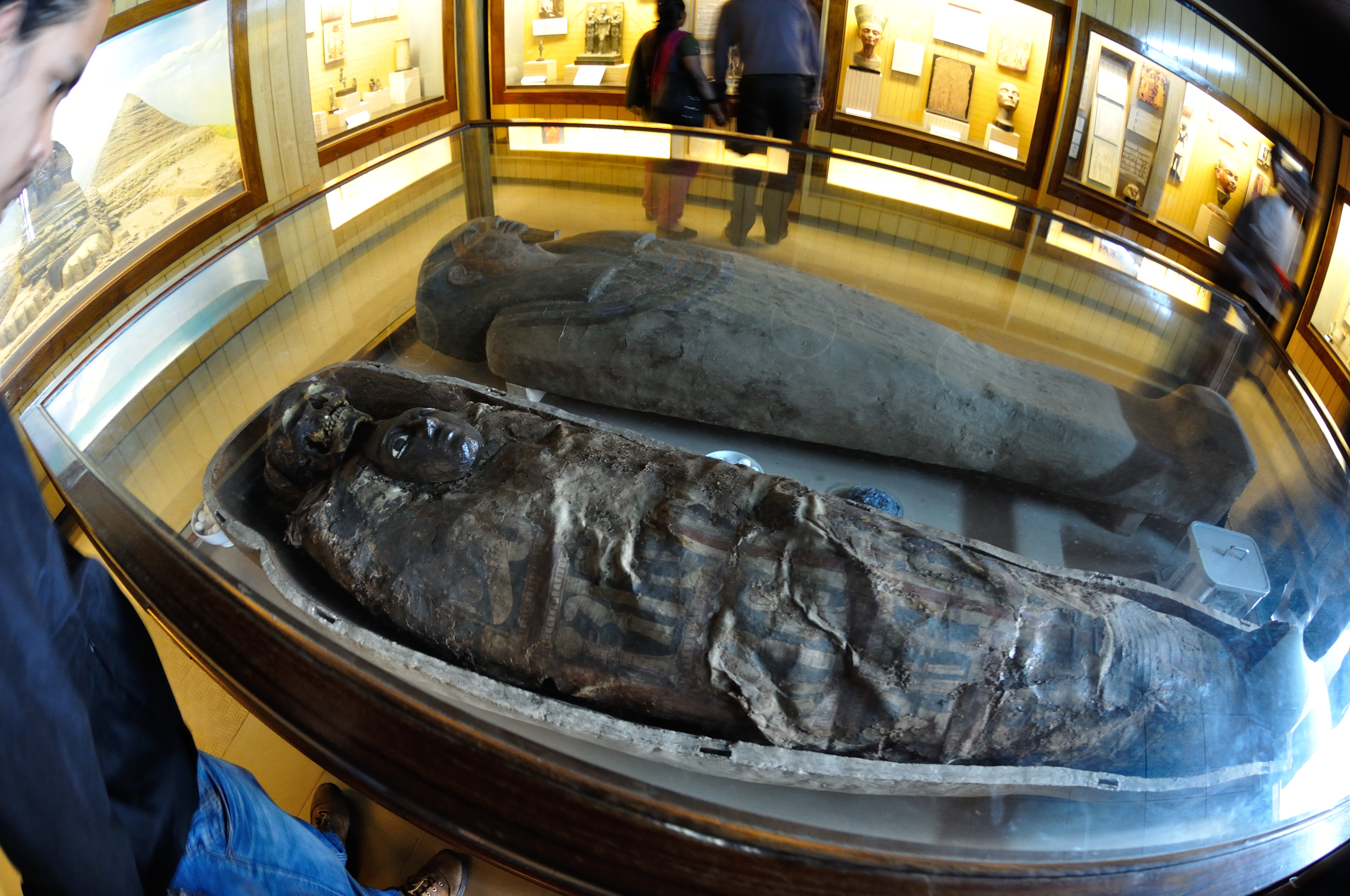 Photographed in Kolkata.